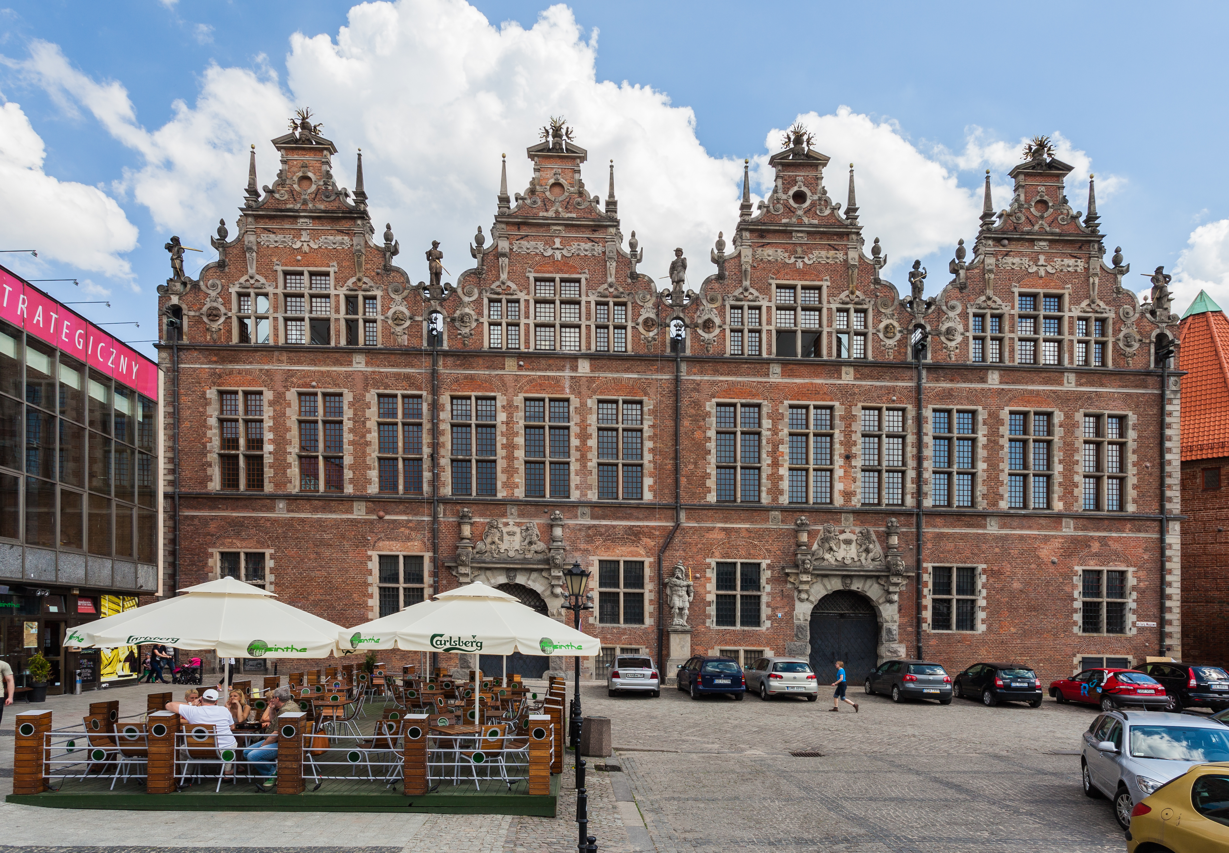 Great Armoury, Gdansk, Poland